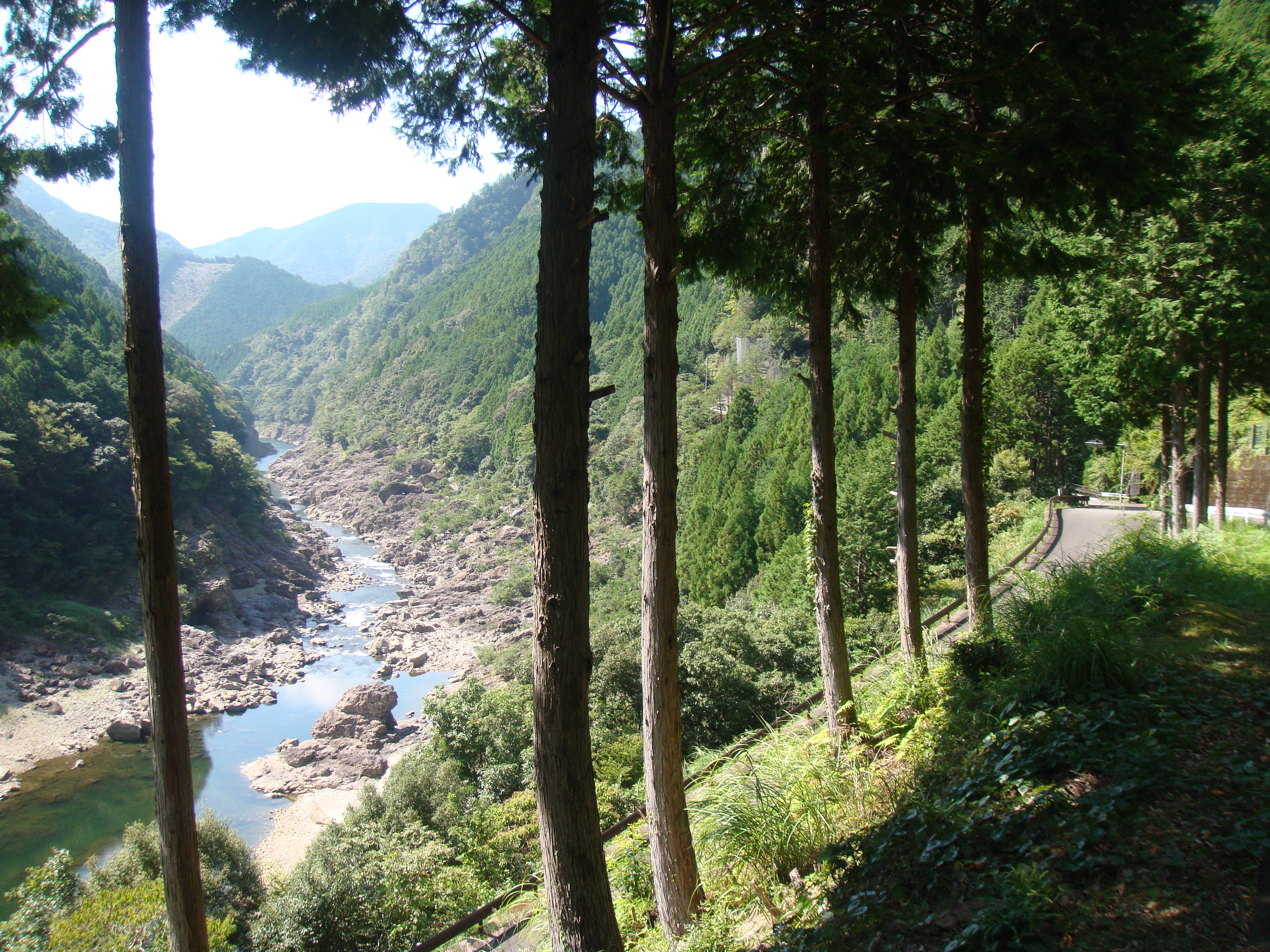 Okutoro（Kitayamagawa River,Otonori） Okutoro（奥瀞）is one of Doro-kyo Gorge（瀞峡）, and Otonori（オトノリ）is one of Okutoro. There is a prefectural border at the middle of the river, and the left bank is Kiwacho-komori, Kumano City, Mie Prefecture. There is the platform of the log rafting for sightseeing under the road and can go down the river on a rafting from here to Komatsu, Kitayama Village. Otonori is the place that is the most dangerous in the courses of this log rafting. The rafting makes nose dive as soon as a log raft leaves the platform. Place - Kitayama Village,Higashimuro County,Wakayama Prefecture,Japan Date - September 22, 2010 Format - JPEG, 3648x2736pixel, 24bit colors Photographer - NALA Wiki (talk)